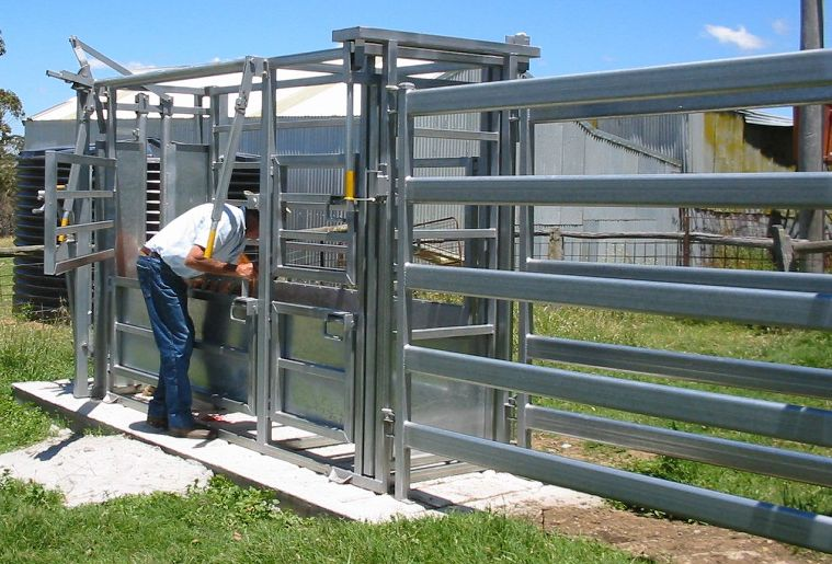 A young bull being castrated in a cattle crush. The race is designed to minimise bruising.